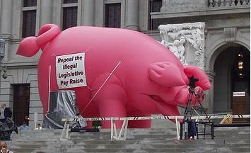 Giant Inflatable Pig to protest the Payraise